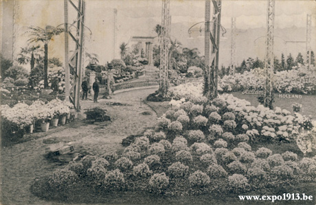 Ghent,_Belgium,_Floralies_1913.jpg